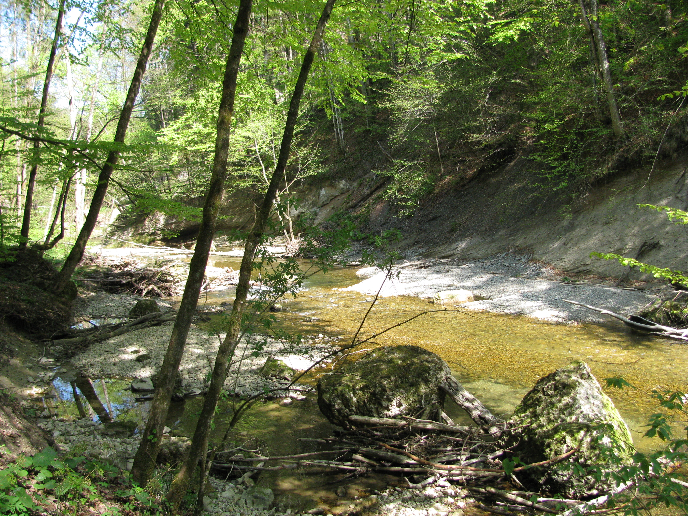 Germany - Bavaria - district Lindau (Bodensee) - Maierhöfen/Grünenbach: protected area "Eistobel"